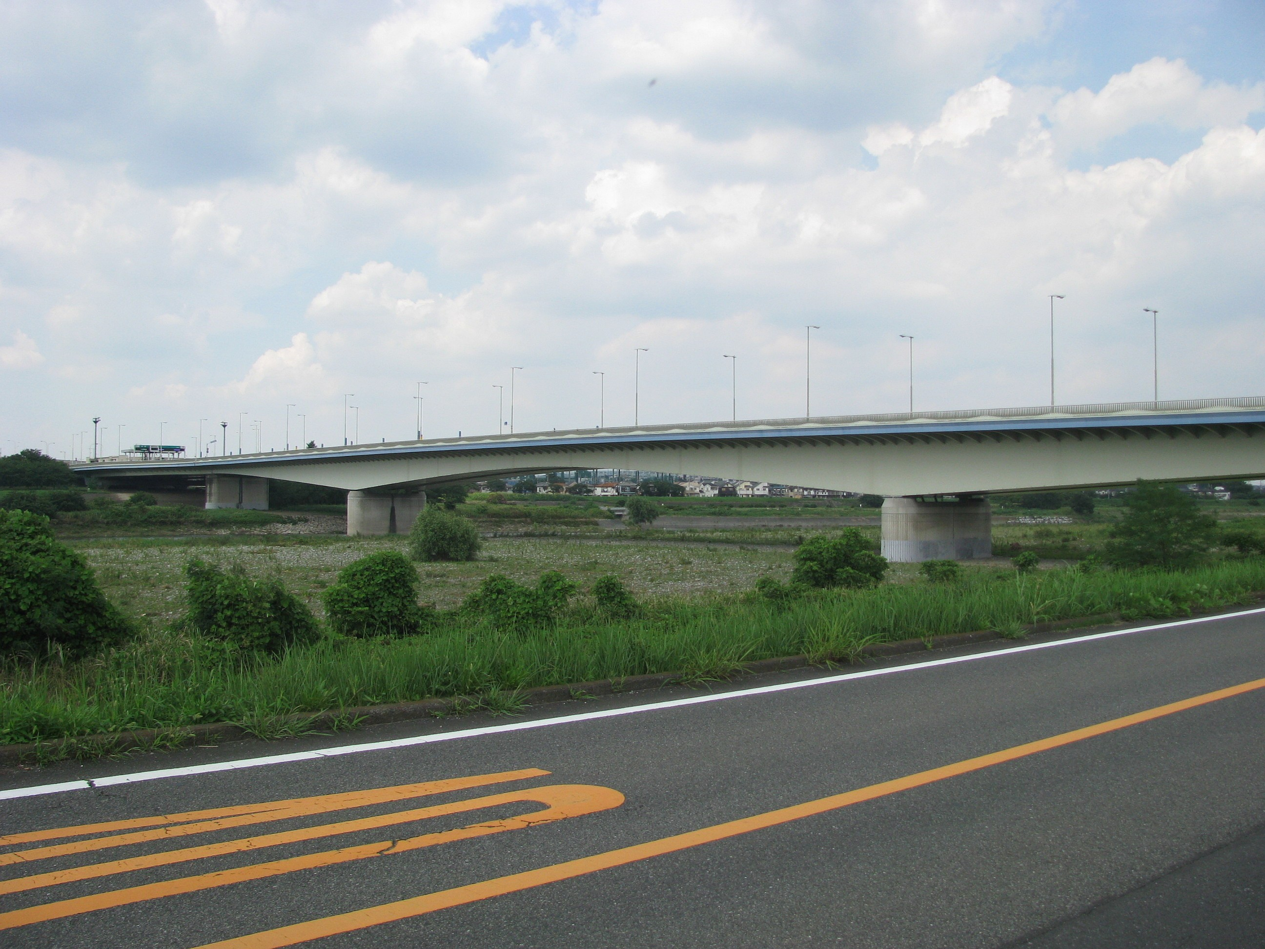 The Inagi-ōhashi is over the Tama-gawa, connect Inagi and Fuchū in Tokyo, Japan.